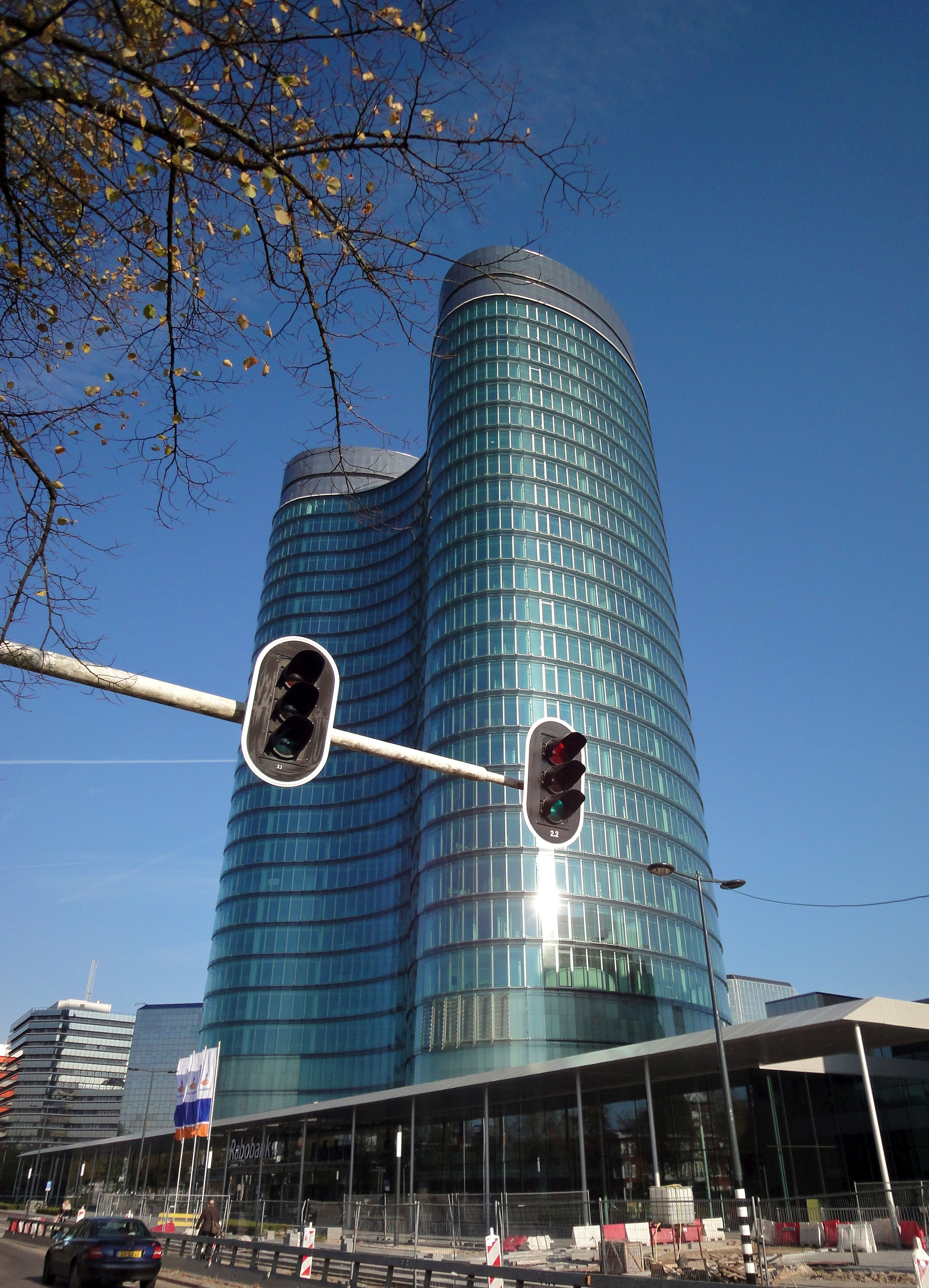 Glass towers and autumn sun near the centre of Utrecht. See also from further away and March 23, 2011. Google Streetview.